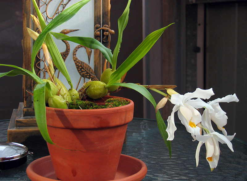 Coelogyne cristata, lumikuningatar in Finnish and snödrottningorkidé in Swedish; picture taken of a young plant originated from the University of Helsinki Botanical Gardens.